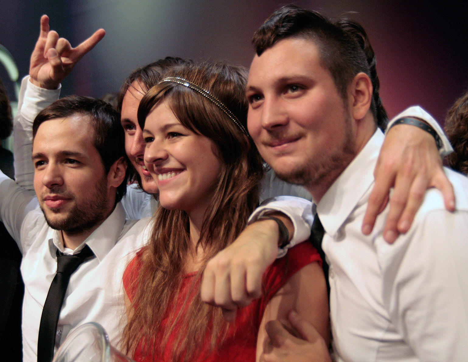 Herbstrock at the Amadeus Austrian Music Award (Museumsquartier, Vienna)